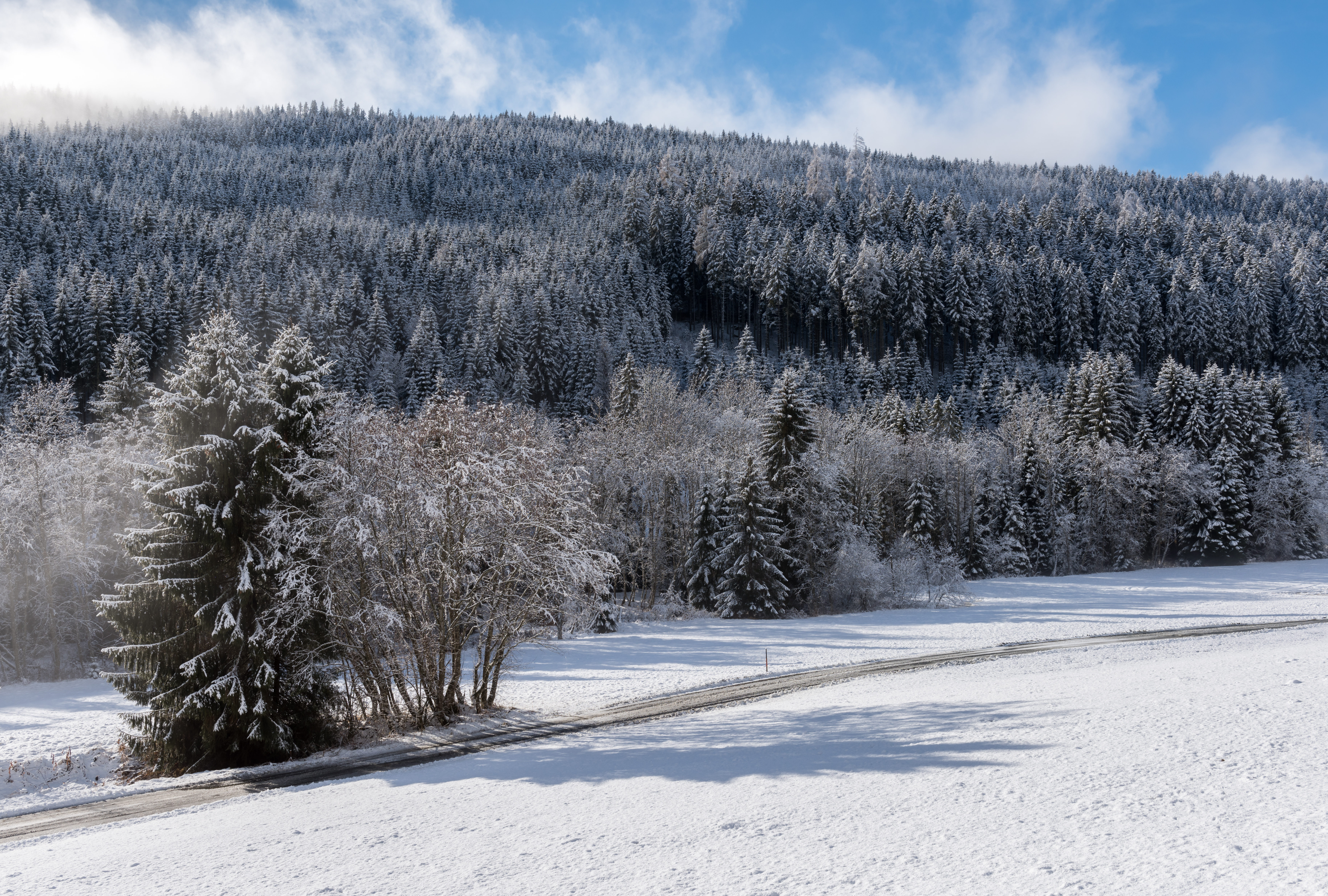 Winterly landscape in Zojach, municipality Liebenfels, district St. Veit an der Glan, Carinthia, Austria, EU